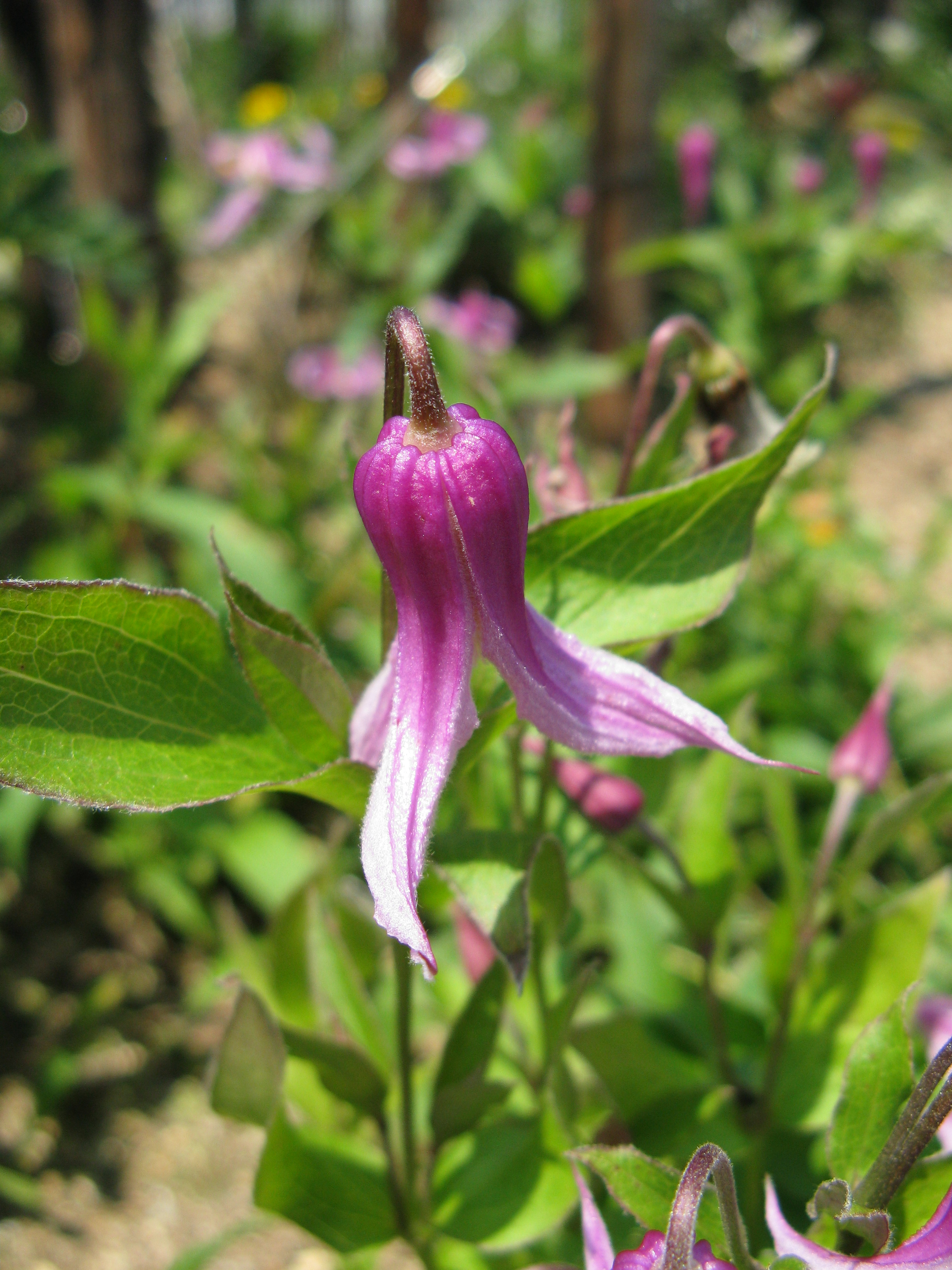 Scientific name Clematis integrifolia 'Hanashima'